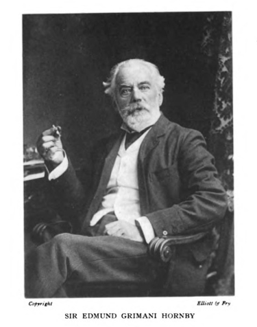 Sir Edmund Hornby, jurist